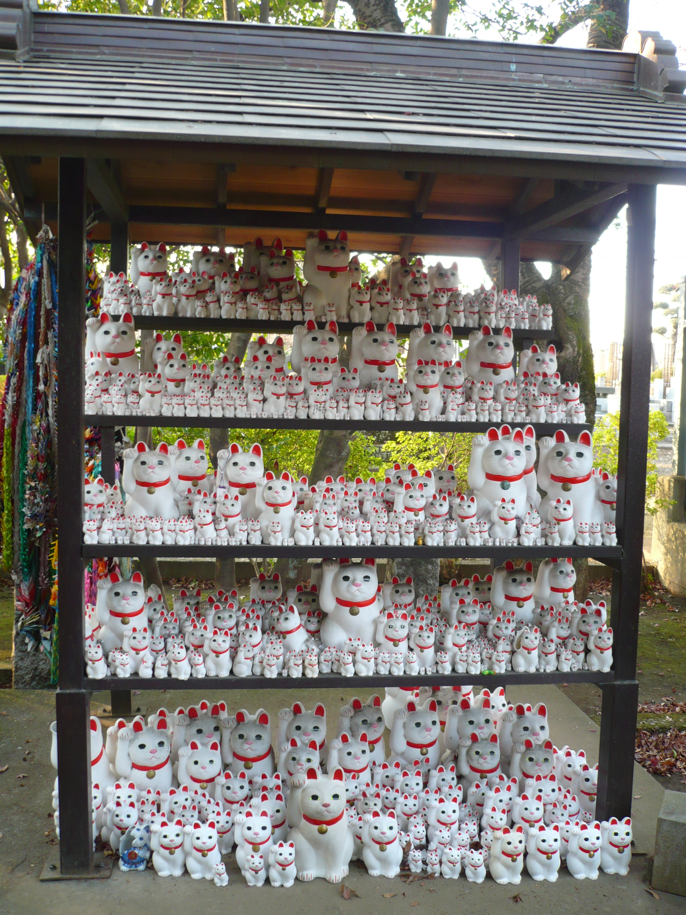 Gotokuji Temple. Japan